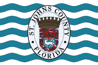 The official flag of St. Johns County, Florida, adopted by Resolution 96-201 on November 12, 1996.